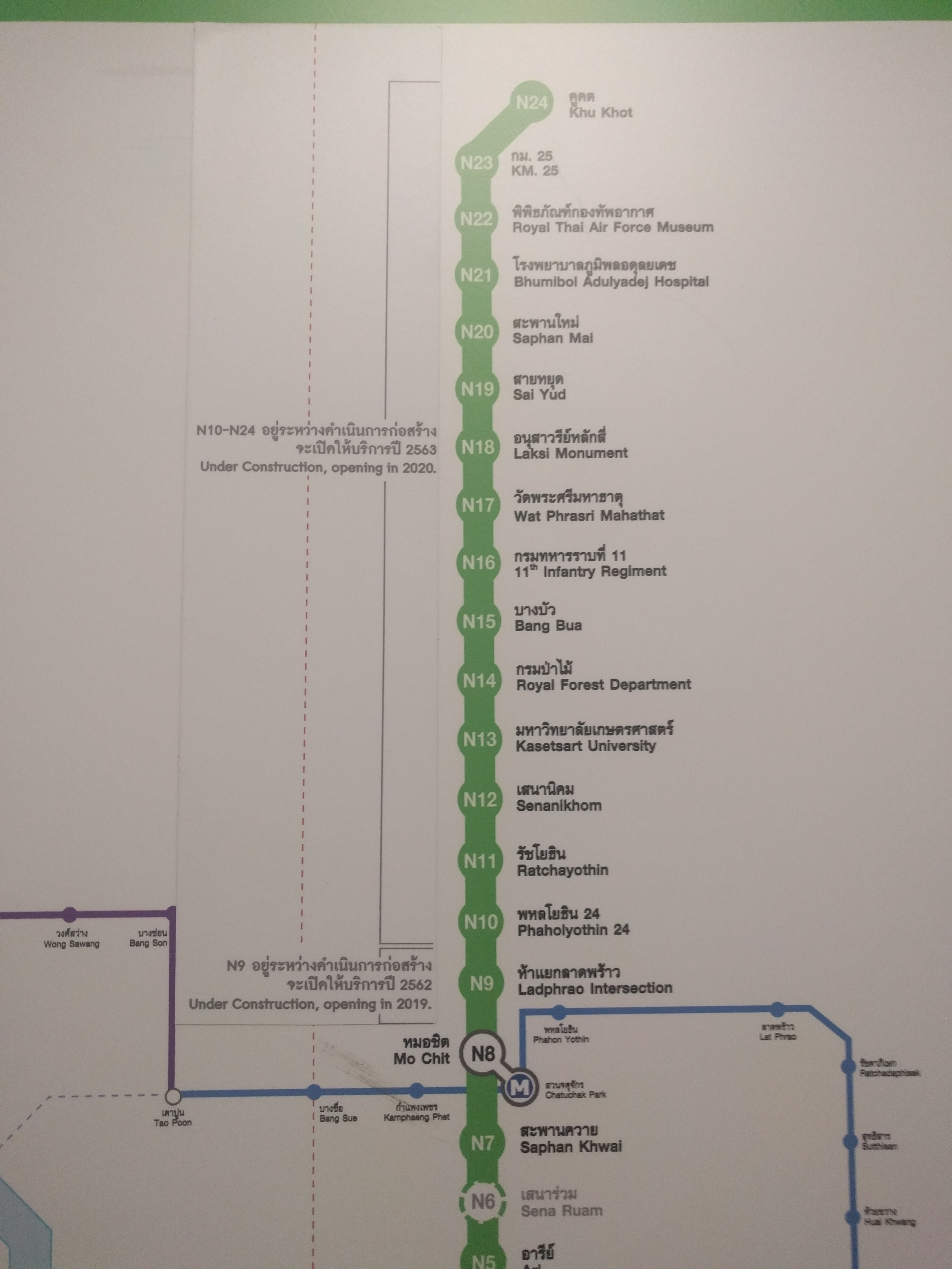 Map at Thong Lo Station